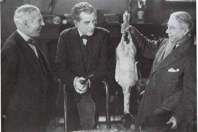 Hubert Willis as Dr. Watson, Eille Norwood as Sherlock Holmes and Douglas Payne as Peterson in 'The Blue Carbuncle' (1923)